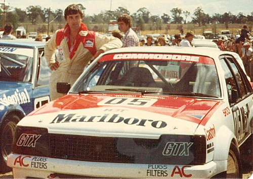 Peter Brock Holden Commodore at the Symmons Plains round of the 1982 Australian Touring Car Championship.